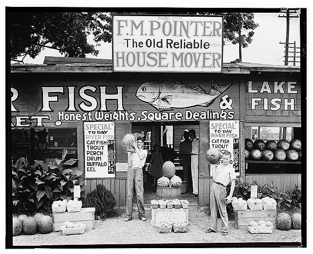 TITLE: Roadside stand near Birmingham, Alabama CALL NUMBER: LC-USF342- 008253 [P&P] REPRODUCTION NUMBER: LC-DIG-fsa-8c52874 (digital file from dup. neg.) LC-DIG-ppmsc-00239 (digital file from print) LC-USF342-T01-008253 (b&w film dup. neg.) RIGHTS INFORMATION: No known restrictions on publication. MEDIUM: 1 negative ; 8 x 10 inches or smaller. CREATED/PUBLISHED: 1936. CREATOR: Evans, Walker, 1903-1975, photographer. NOTES: Title and other information from caption card. Additional information about this photograph might be available through the Flickr Commons project at Digital file made from the preservation duplicate negative, not the original negative. LOT 4725 (Location of corresponding print.) Transfer; United States. Office of War Information. Overseas Picture Division. Washington Division; 1944. More information about the FSA/OWI Collection is available at Film copy on SIS roll 18, frame 547. SUBJECTS: United States--Alabama--Jefferson County--Birmingham. FORMAT: Film negatives. PART OF: Farm Security Administration - Office of War Information Photograph Collection REPOSITORY: Library of Congress Prints and Photographs Division Washington, DC 20540 USA DIGITAL ID: (digital file from duplicate neg.) fsa 8c52874 (original print) ppmsc 00239 CONTROL #: fsa1998021020/PP